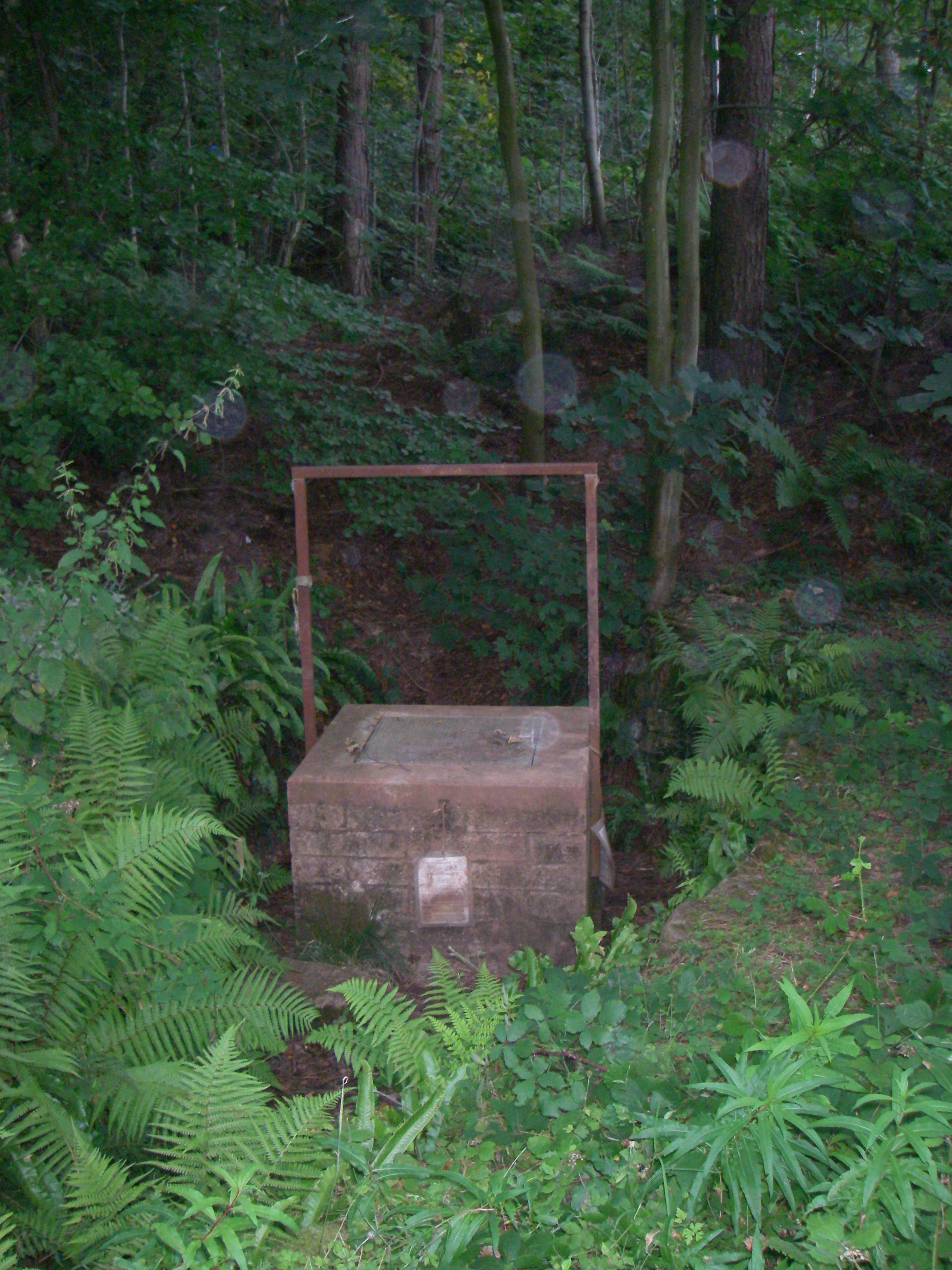 The entrance to Miss Grace's Lane cave near Tidenham, Forest of Dean in Gloucestershire, United Kingdom.